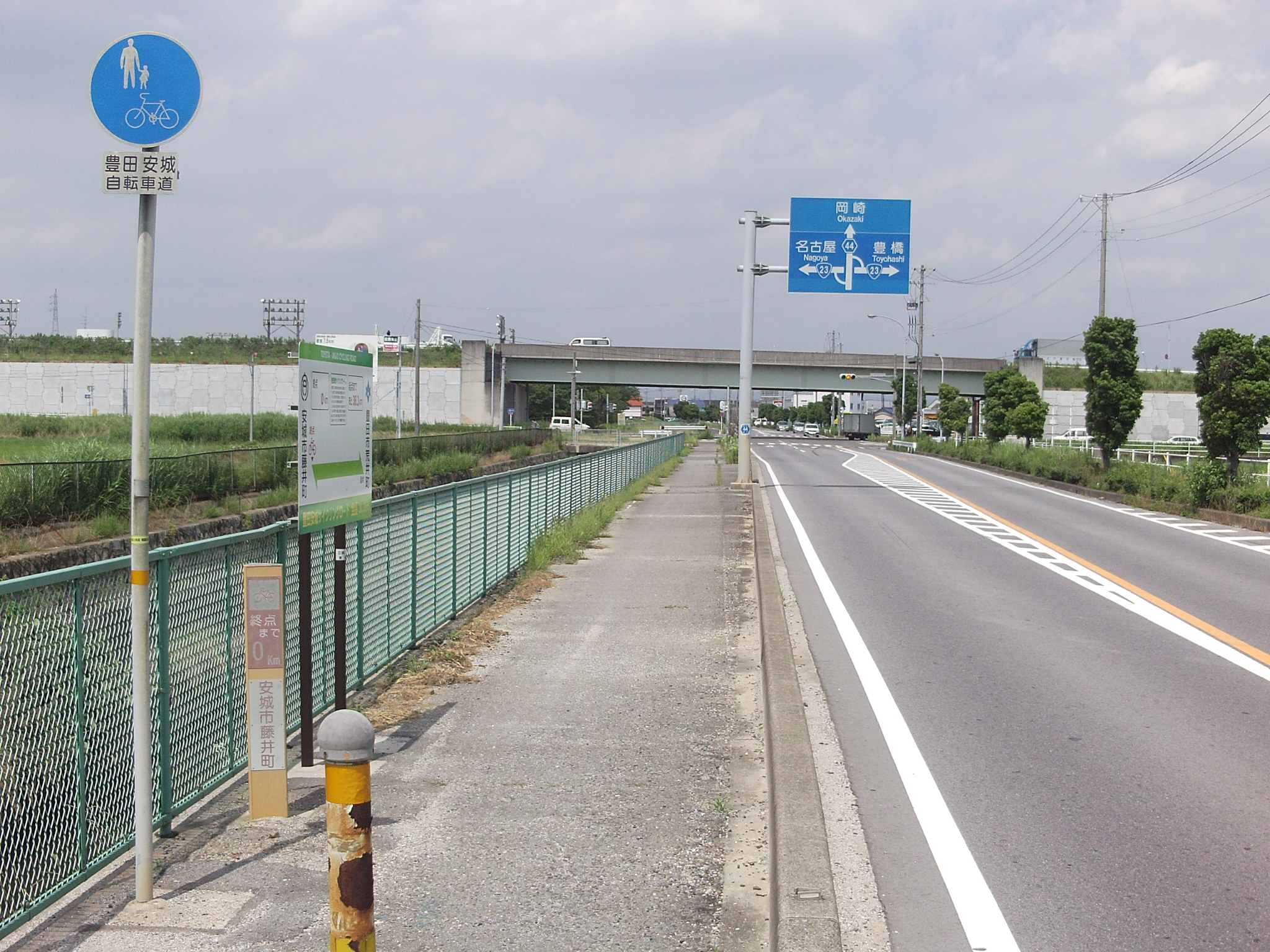 The Aichi Prefectural Road Route 44 and Route 288 (bike path on the left) in Fujiicho, Anjo City